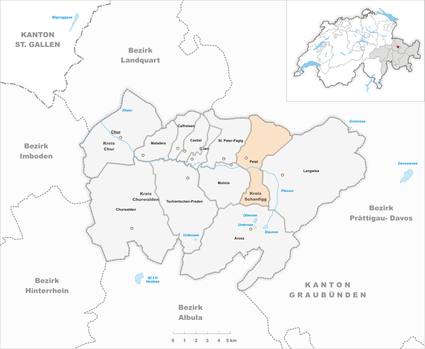 Municipality Peist